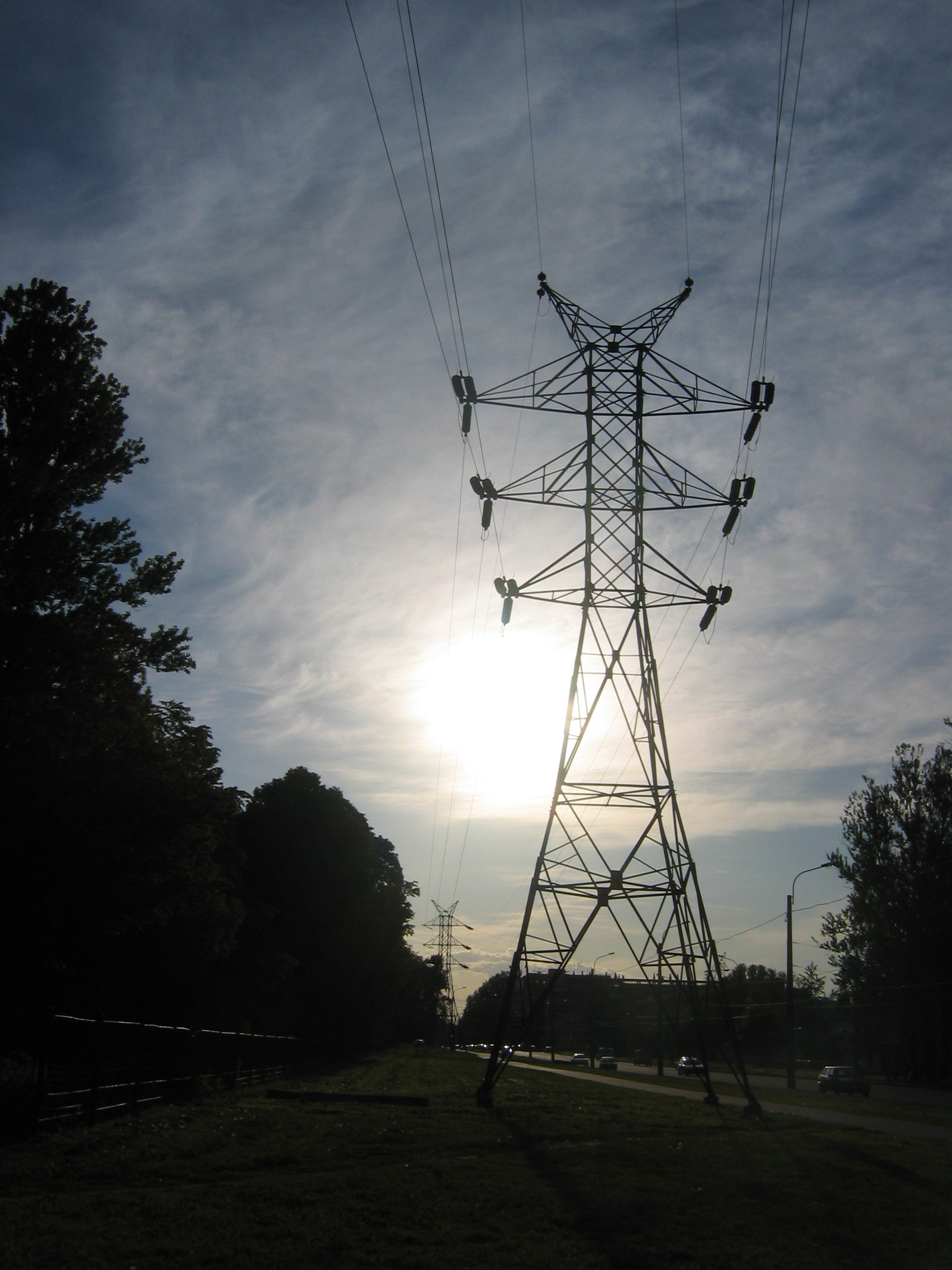 Pylon of a high-voltage transmission line